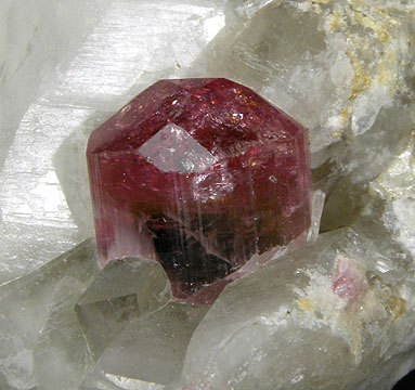 Tourmaline Locality: Gaoligong Mts (Gaoligong Shan), Nujiang Autonomous Prefecture, Yunnan Province, China (Locality at ) Size: 4.5 x 3.8 x 3.2 cm. Despite the incredible amount of minerals coming out of China these days, tourmalines are exceptionally uncommon. This specimen hails from the Gaoligong Shan area which is very close to the border with Burma. It hosts a wonderfully lustrous, sharp, gemmy, pink and green euhedral crystal of Tourmaline sitting amongst Quartz and Feldspar matrix.